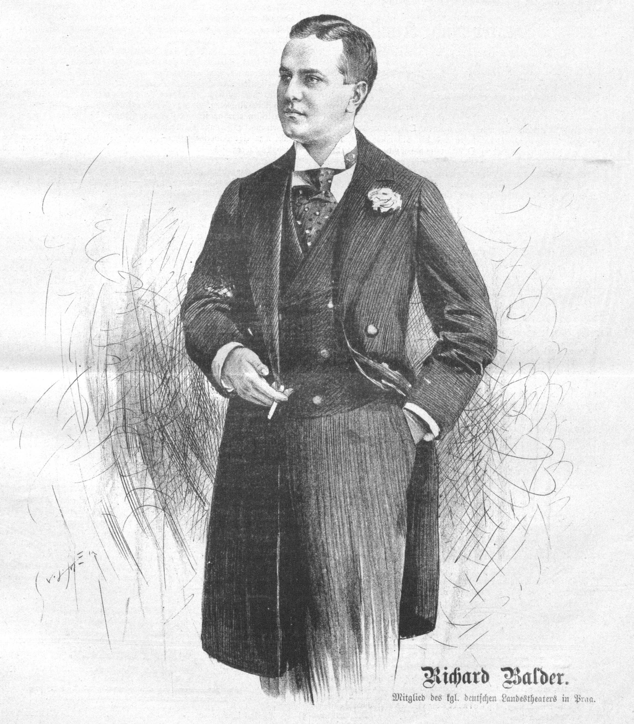 Portrait of Richard Balder (1867-1917), Austrian actor.